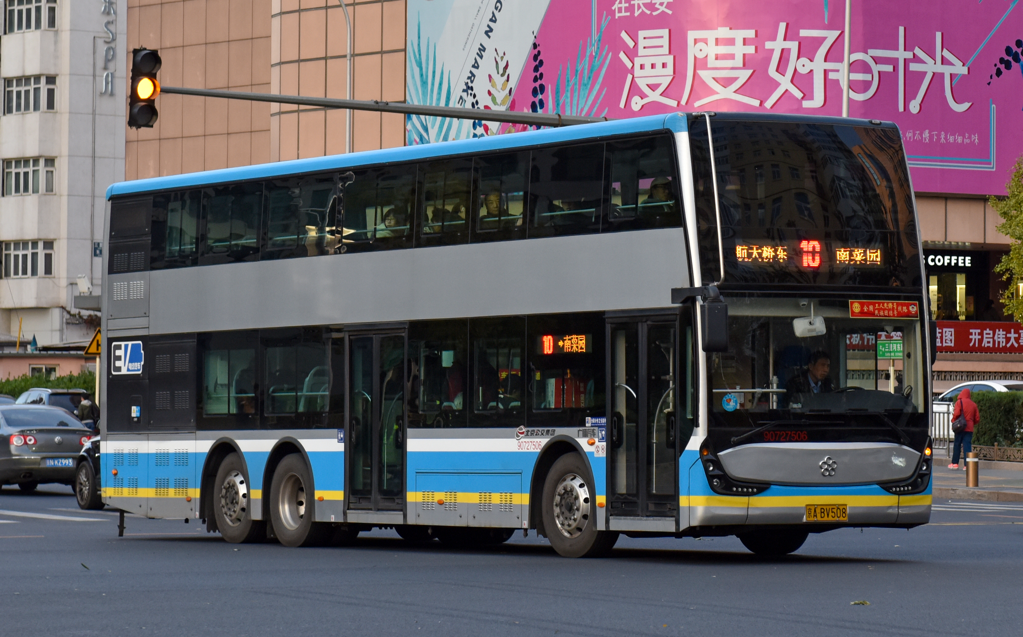 Turning from E Sanlihe Rd to Fuxingmen Inner St.